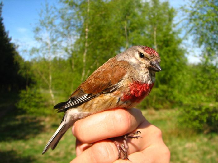 Linnet, Carduelis cannabina